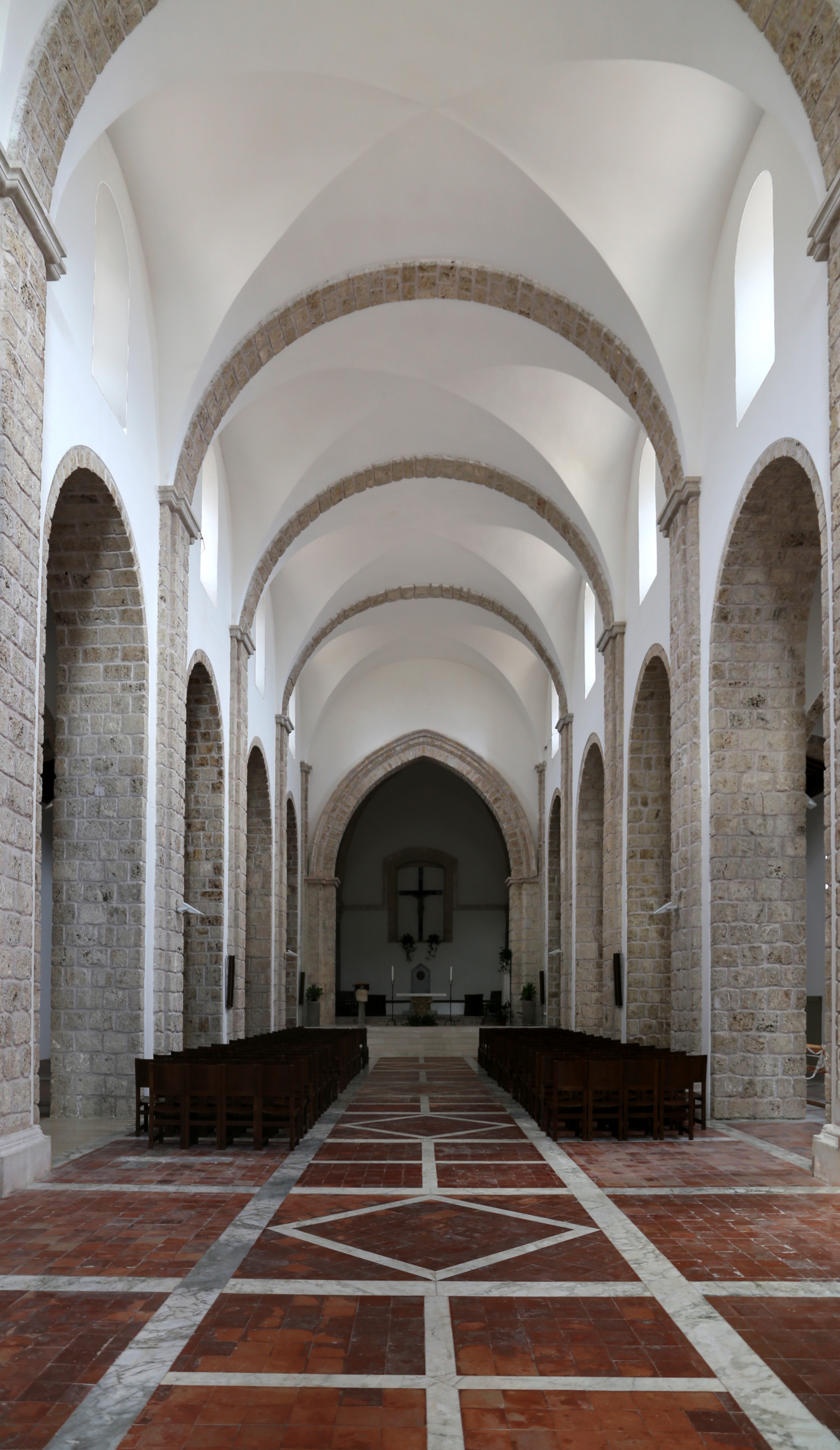 San Vincenzo al Volturno